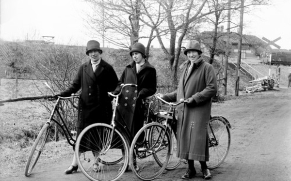 Group of women on bicycles, down the road from the Munkedal Railway Station.